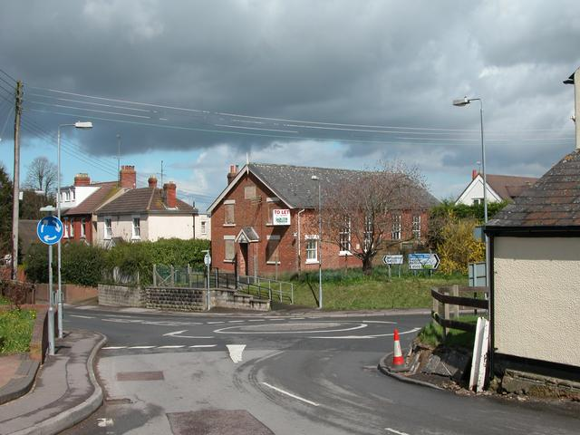 The Oddfellows Hall, Chisledon. This was built as an Oddfellows hall in 1879, in more recent years it has housed the library, it's currently empty, looking for a new inhabitant. Its been converted into houses.